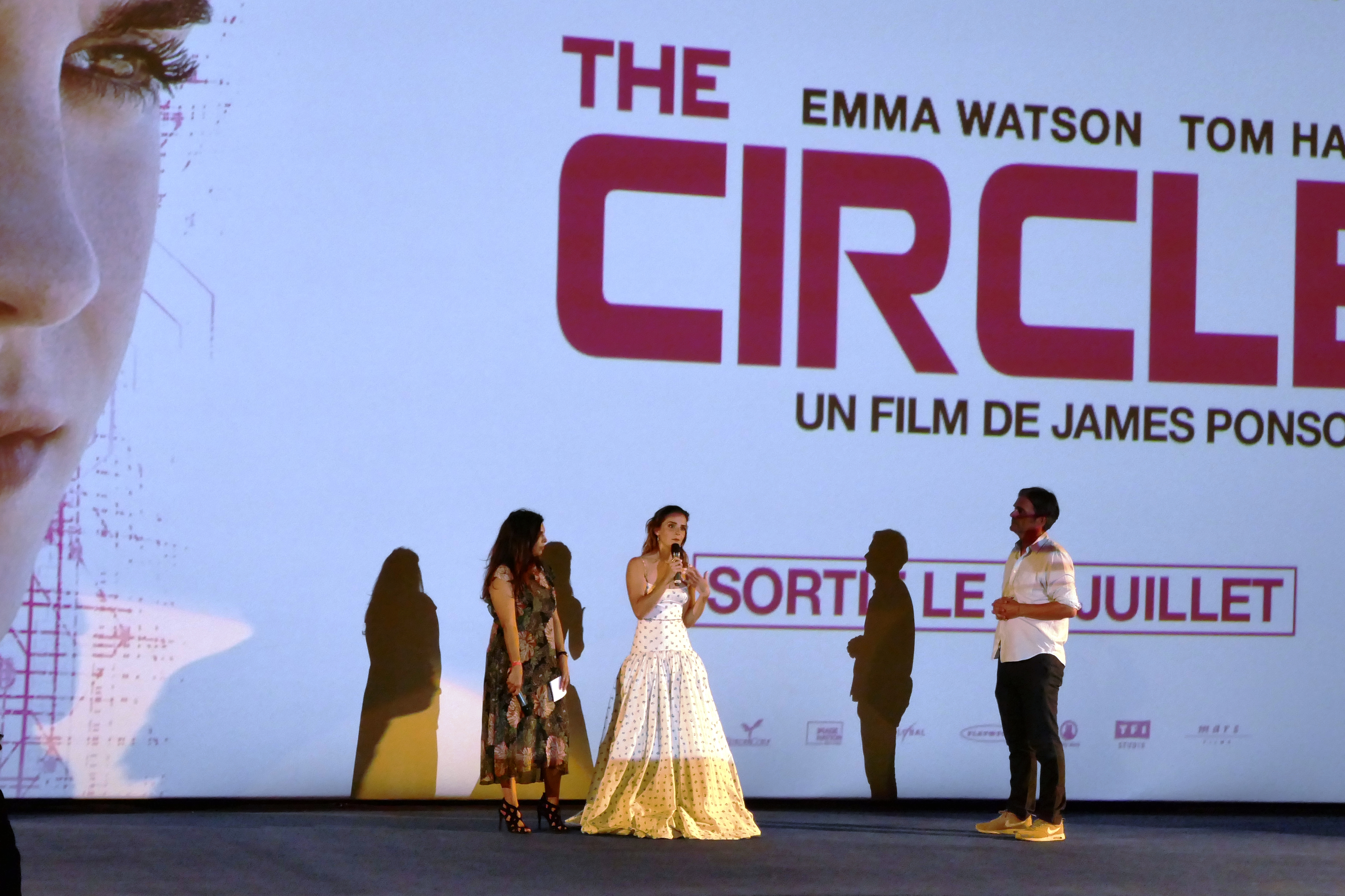 Emma Watson at the Paris Premiere of "The Circle" (21/06/2017, UGC Normandie)